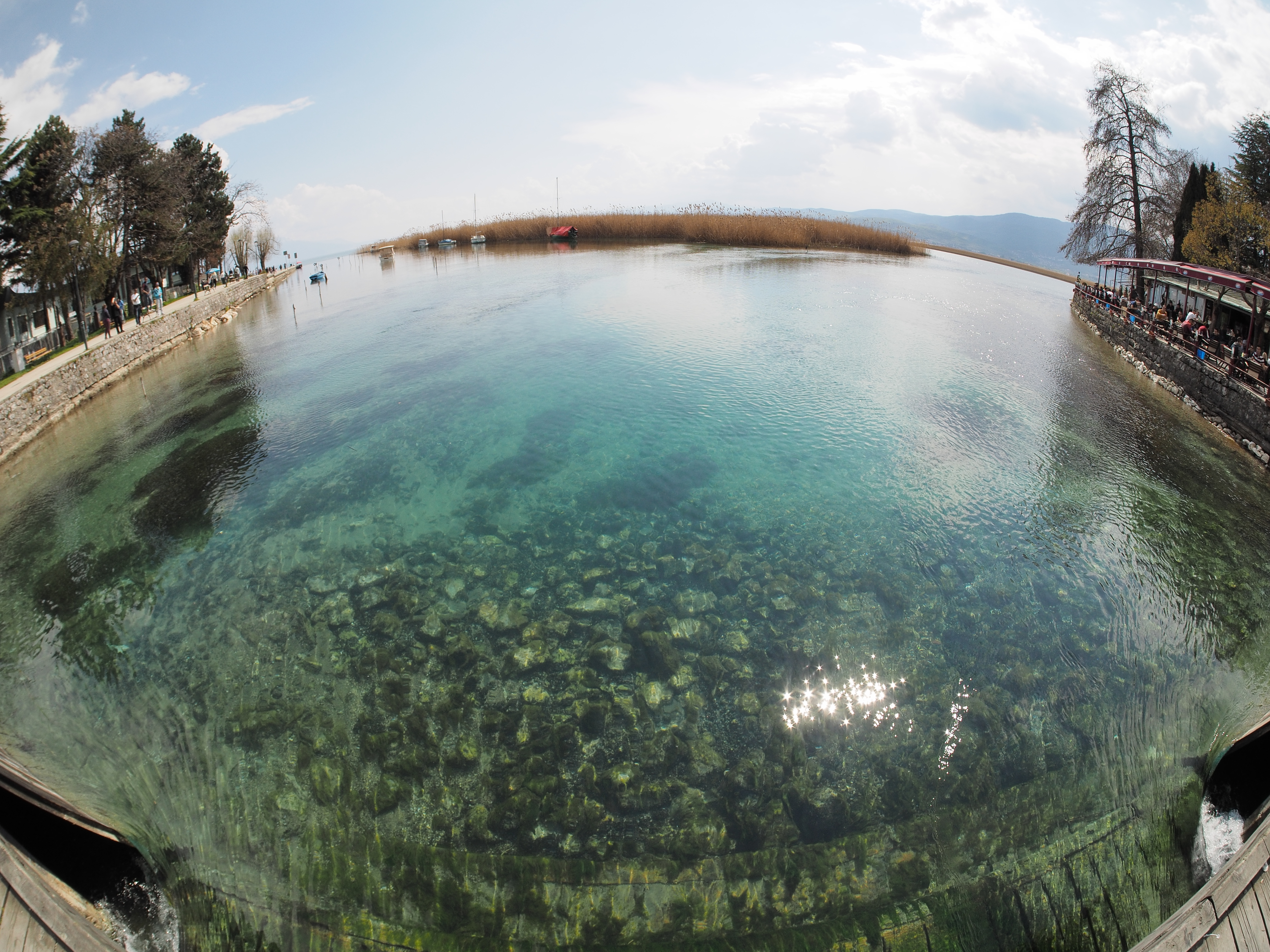 Ohrid lake, source of river Crni Drim, floats behind the bridge. This photograph was taken with an Olympus E-M1